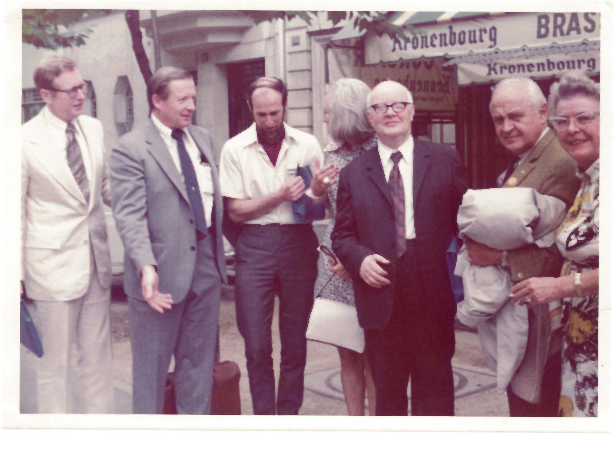 1973 Solar Energy Conference, Paris, France.